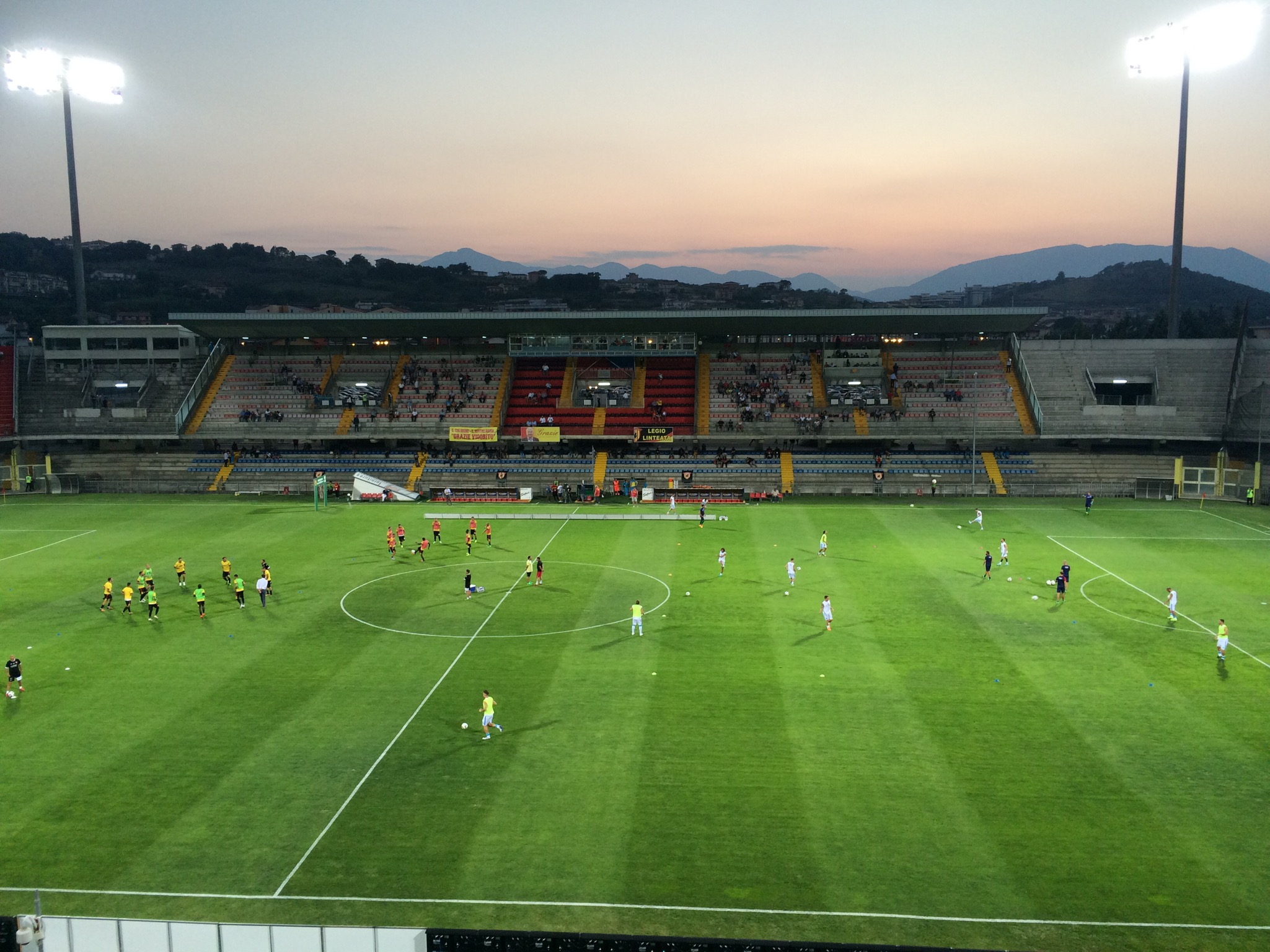 Stand in Ciro Vigorito Stadium